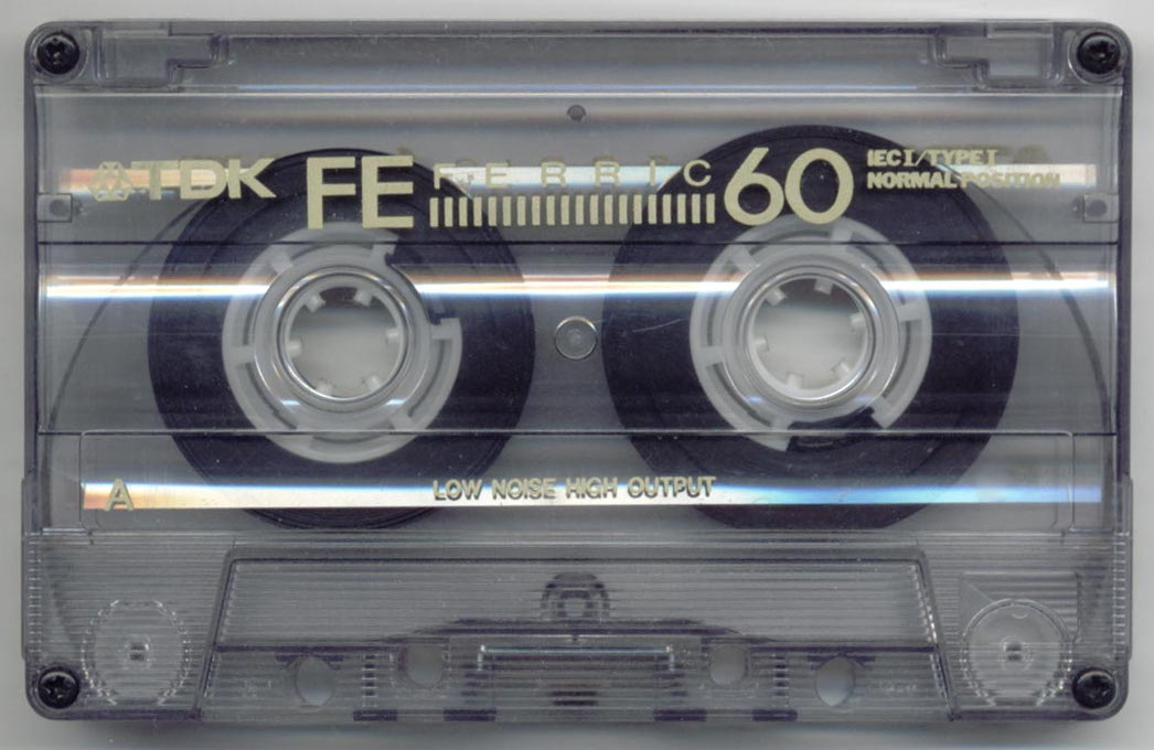 Audio cassette